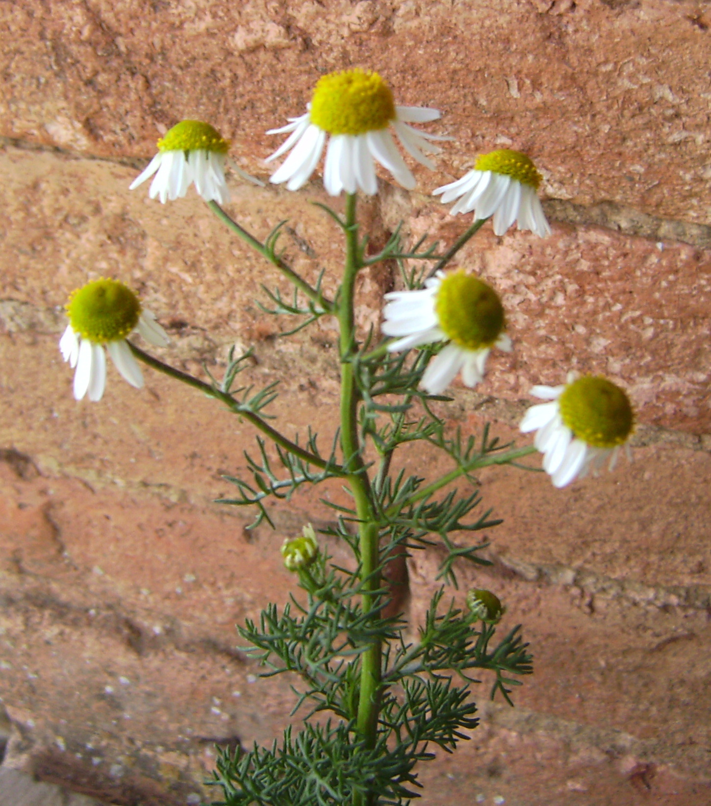 Matricaria chamomilla on a pot, flowers, Castelltallat, Catalonia